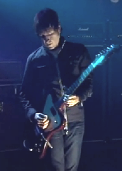 Archer in 2008